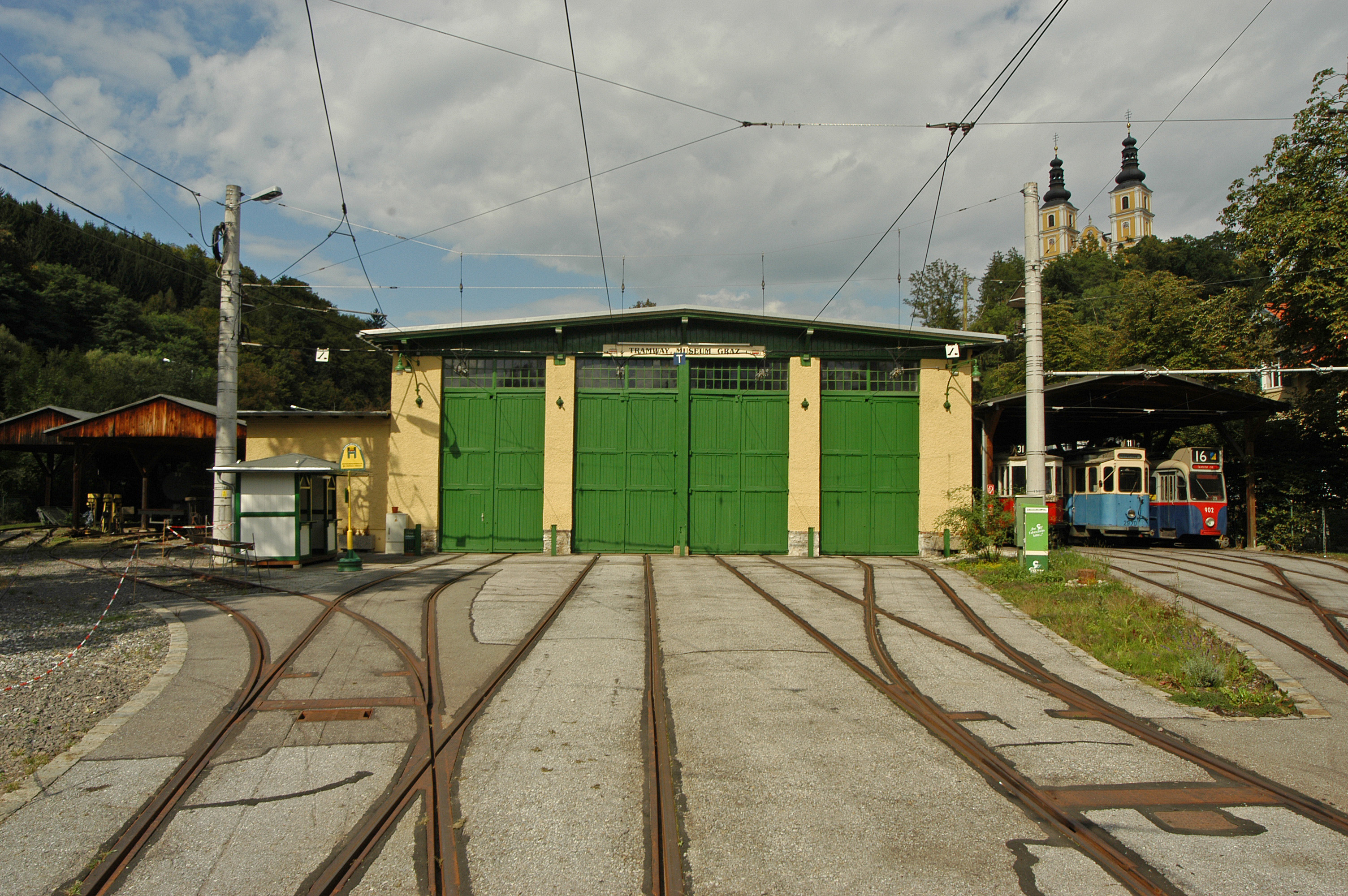 Please report references to kulacgmx.at. Object location47° 06′ 20.51″ N, 15° 29′ 20.61″ E